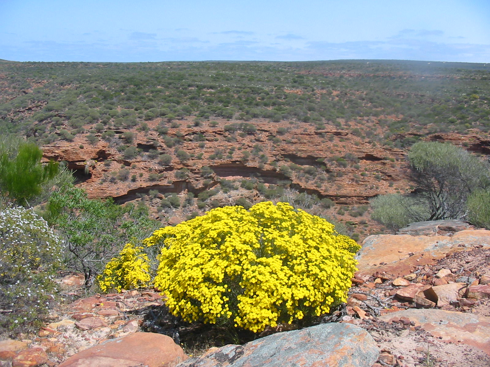 Michael Bruss. Personal Library. Photograph taken of Kalbarri Park, Western Australia in 2005.